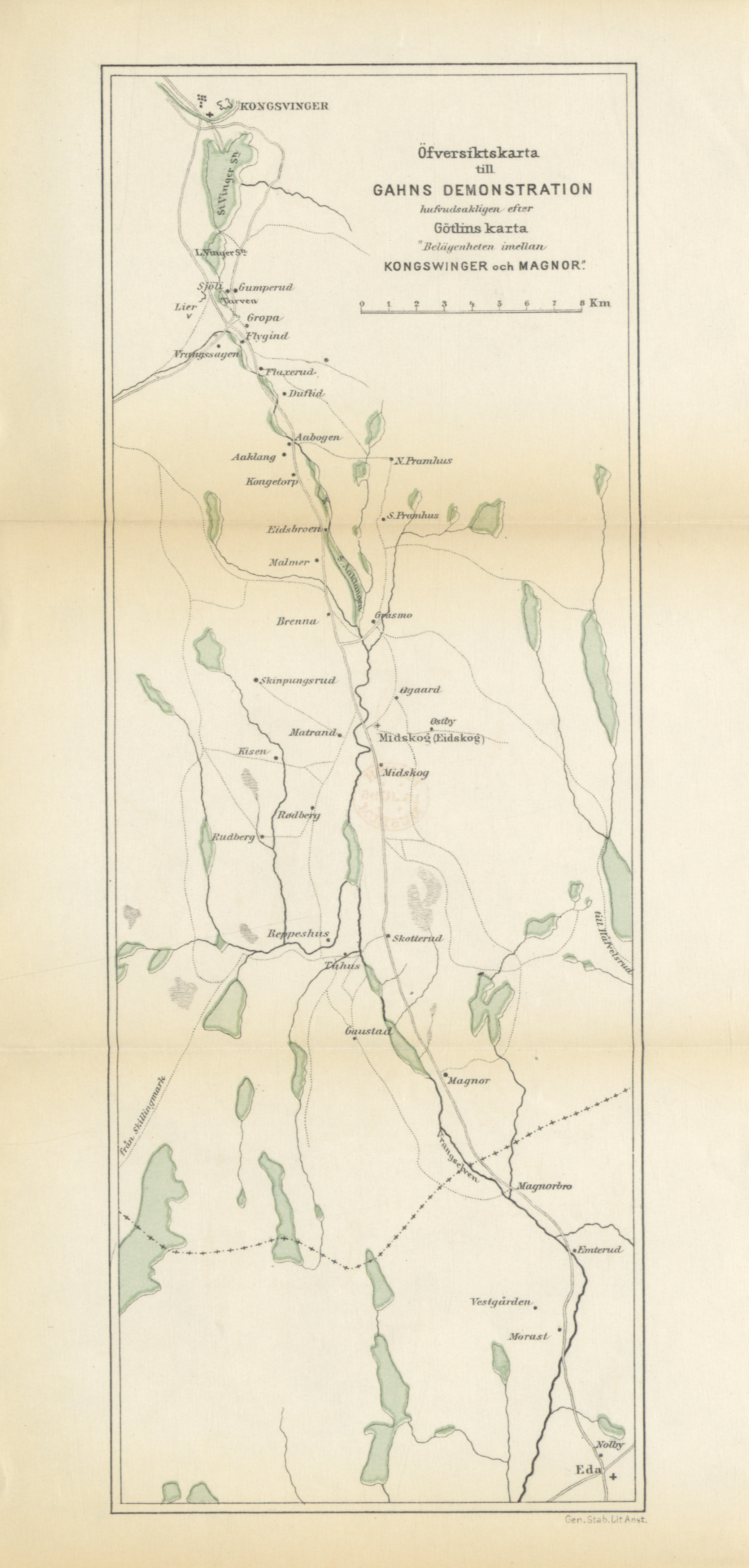 View this map on the BL Georeferencer service. Image taken from: Title: "Kriget i Norge 1814 ... Med 3 kartor, etc" Author: BJÖRLIN, Johan Gustaf. Shelfmark: "British Library HMNTS 9435.f.27." Page: 367 Place of Publishing: Stockholm Date of Publishing: 1893 Issuance: monographic Identifier: 000363118 Explore: Find this item in the British Library catalogue, 'Explore'. Download the PDF for this book (volume: 0) Image found on book scan 367 (NB not necessarily a page number) Download the OCR-derived text for this volume: (plain text) or (json) Click here to see all the illustrations in this book and click here to browse other illustrations published in books in the same year. Order a higher quality version from here.